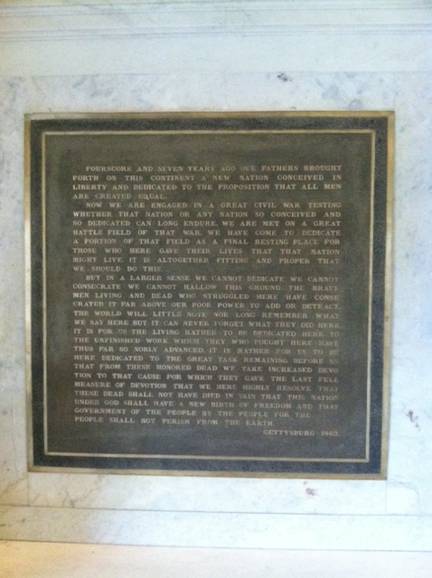 This is the Gettysburg Address inside the east foyer of Lincoln Hall building